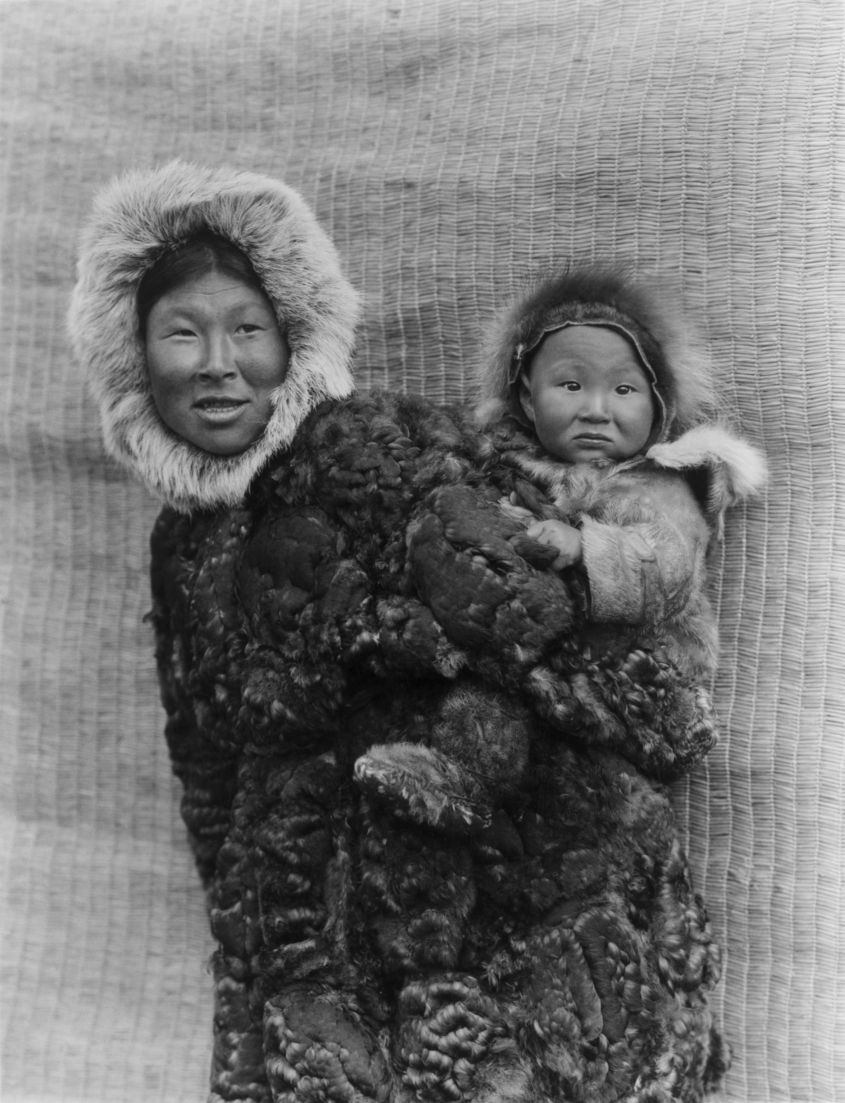 Woman and child, Nunivak, c1929 photograph by Edward S. Curtis.